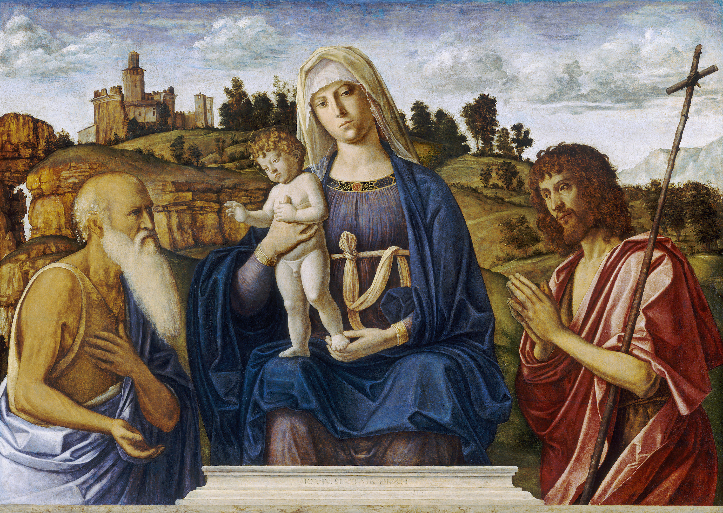 Madonna and Child with St Jerome and St John the Baptist Oil on panel; 104 x 146 cm (whole panel), 102 x 144 cm (painted surface) Washington, National Gallery of Art